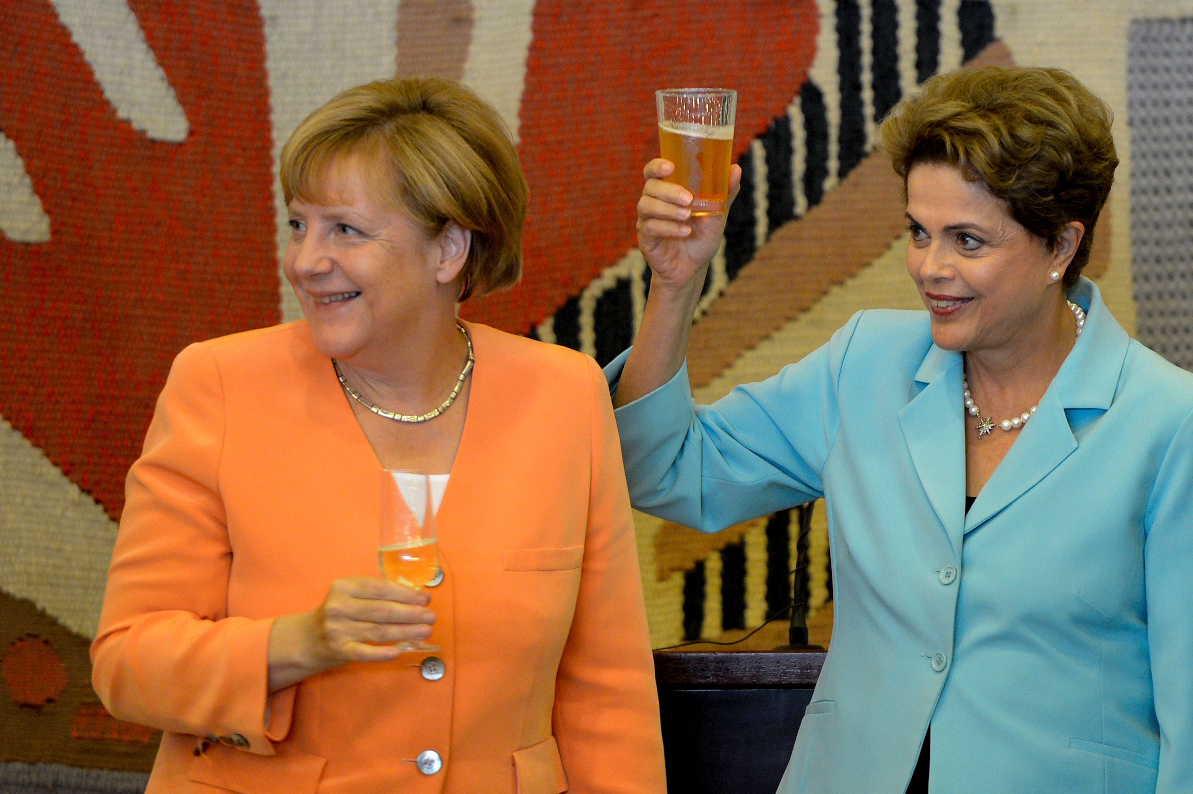 Angela Merkel and Dilma Rousseff (Wilson Dias/Agência Brasil) CCBY3.0